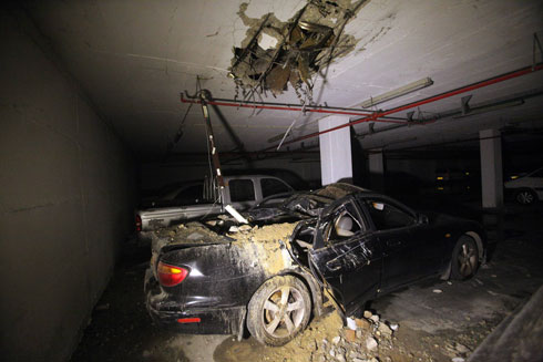 A parking lot in Ashdod, Israel, destroyed by Gazan rocket attacks.